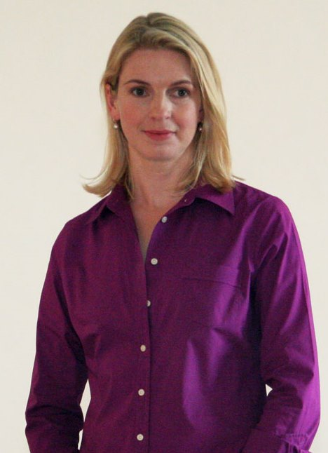 Author Jennifer Donnelly at a 2010 photo shoot promoting Revolution (novel).